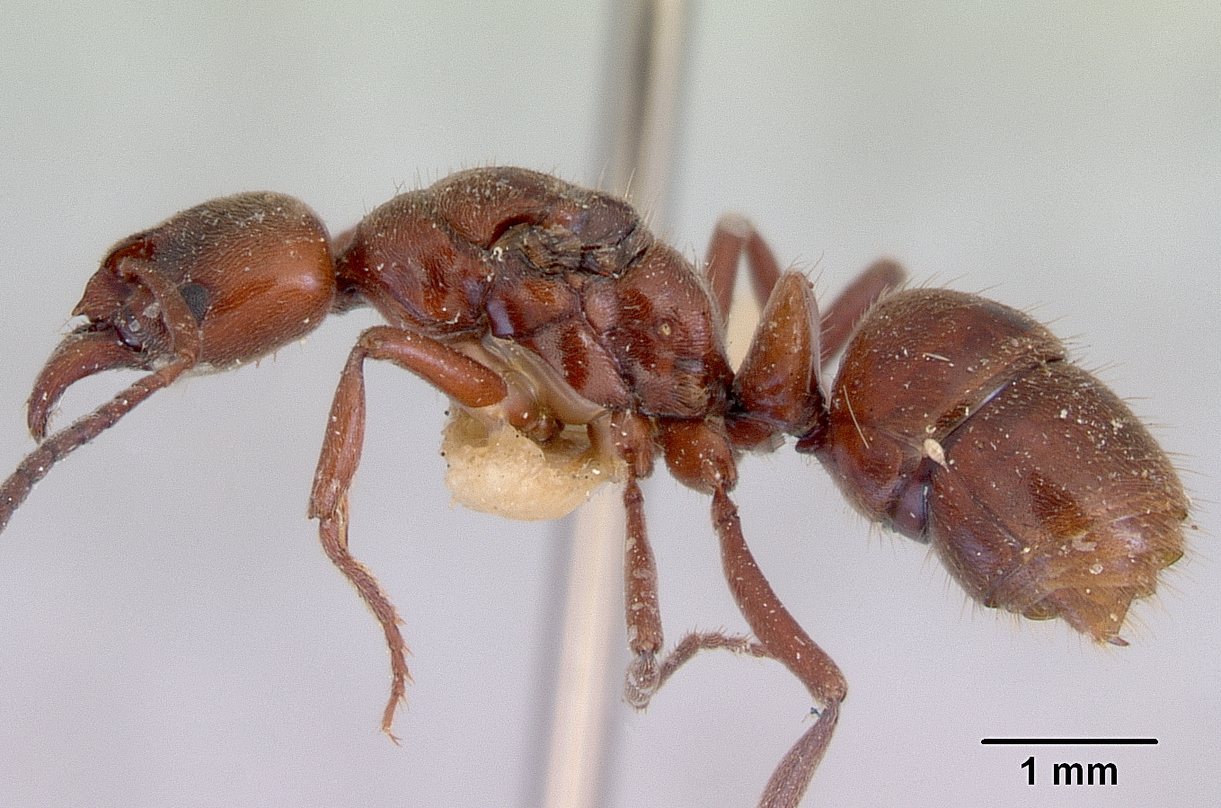 Profile view of ant Pachycondyla castaneicolor specimen casent0172338.